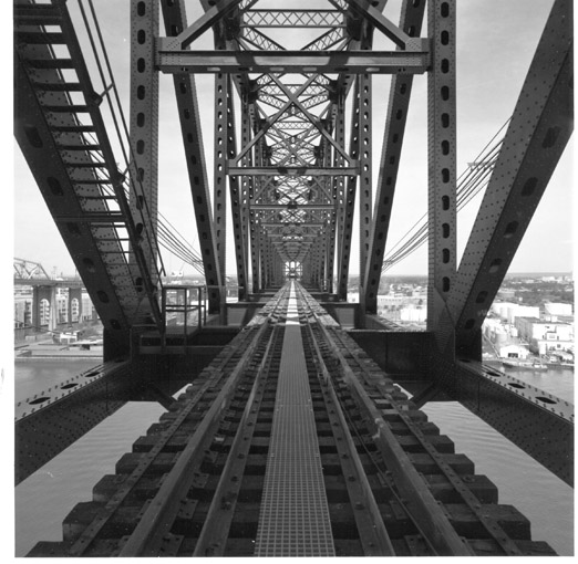 Arthur Kill Vertical Lift Bridge, view of railway tracks